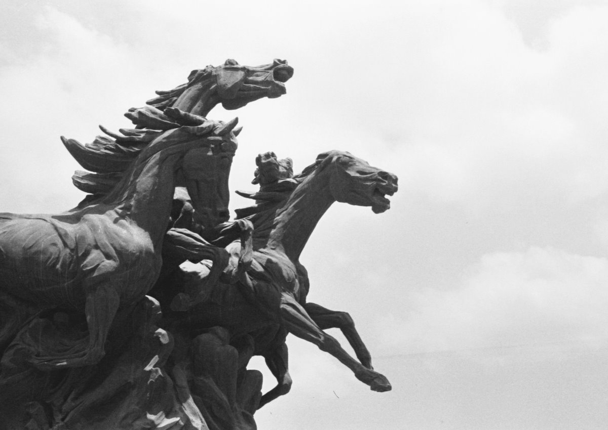 Equine statue on the LC de Villiers Sports Grounds, University of Pretoria ↑ De Jager-perde kry 'n nuwe, groen weiveld by LC de Villiers